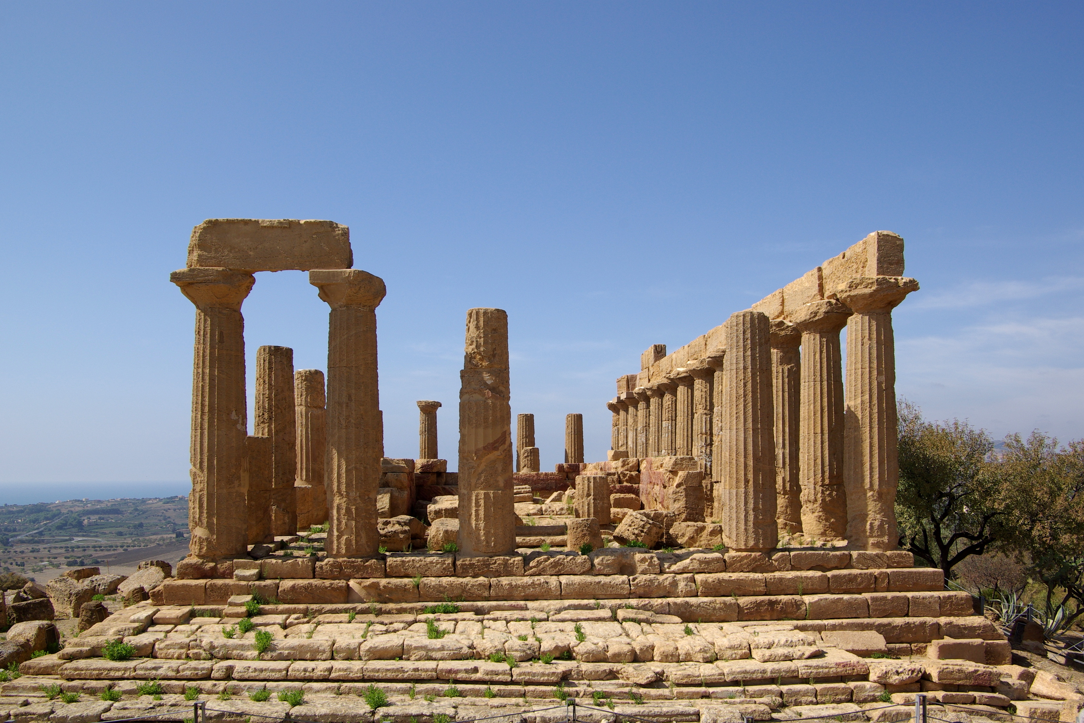 Italy, Sicily, Agrigento, Valley of the Temples, Temple of Juno Lacinia